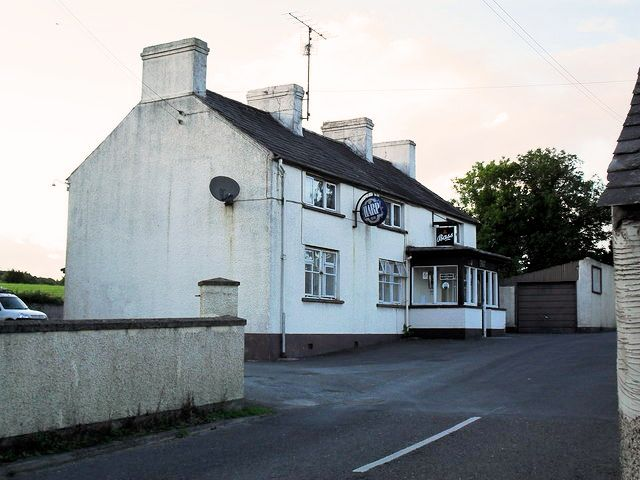 O'Toole's Pub, The Heights, Loughinisland On The Heights. Scene of a loyalist massacre on 18th June 1994 - Six civilians were killed. The community have insisted that the bar should remain open. Loughinisland is a predominantly Roman Catholic village, however was otherwise unscathed by The Troubles.